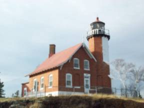 Eagle Harbor Light at Lake Superior, Michigan, USA